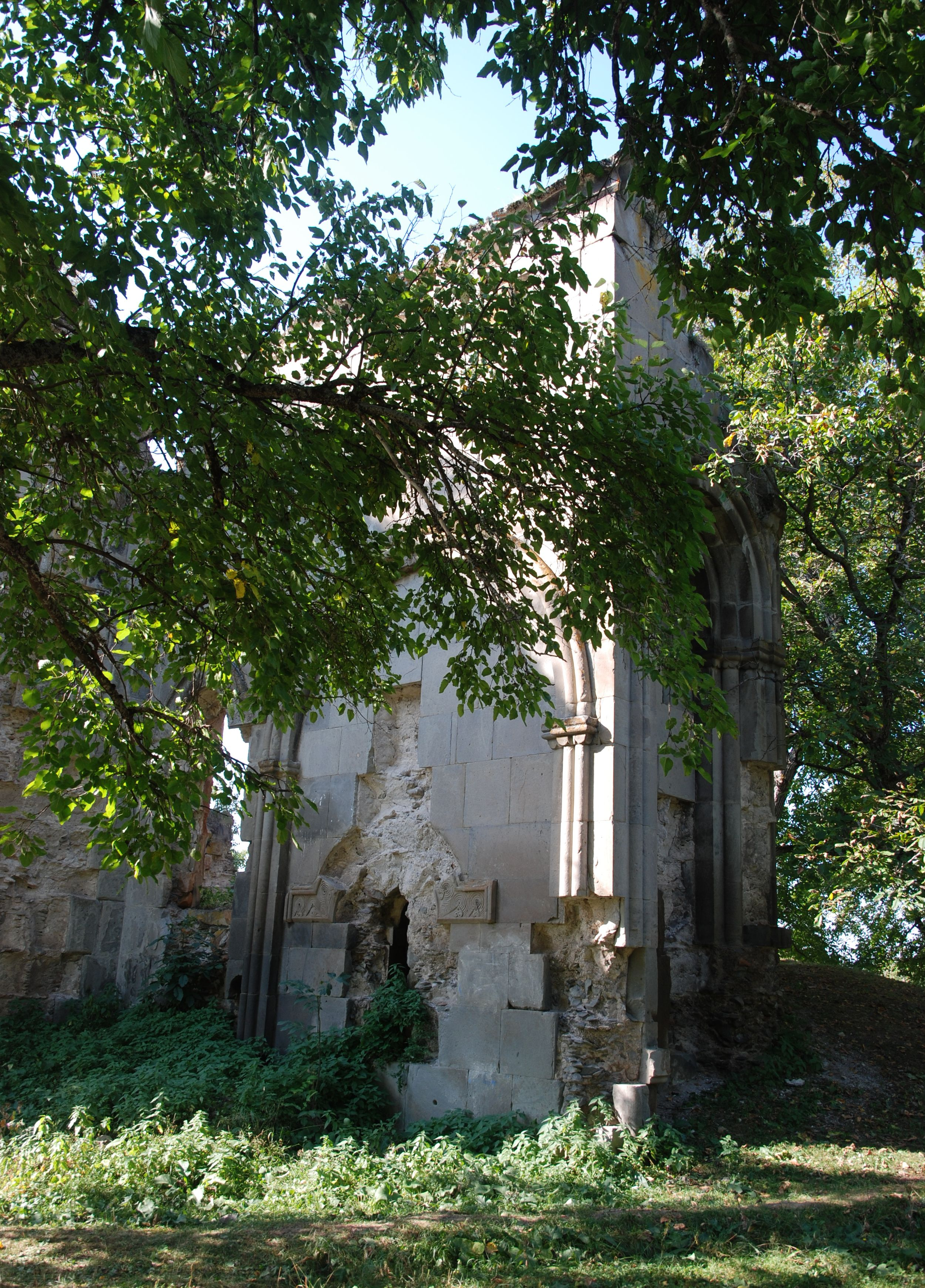 Tbeti, Georgian church in Artvin province, from northeast